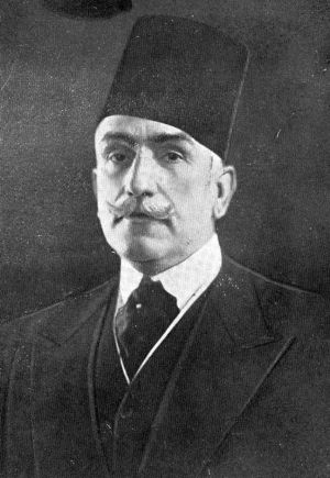 Photograph of Prince Muhammad Ali Tawfiq (1875-1955), former Regent and Heir to the Throne of Egypt.